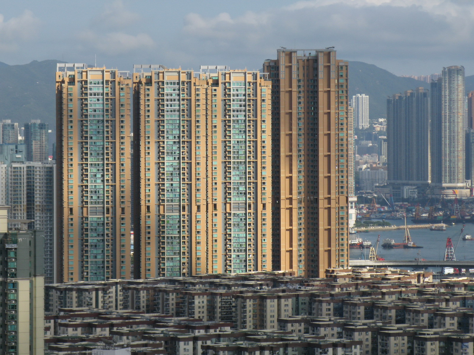 Western Facade of Manhattan Hill (residential), Lai Chi Kok